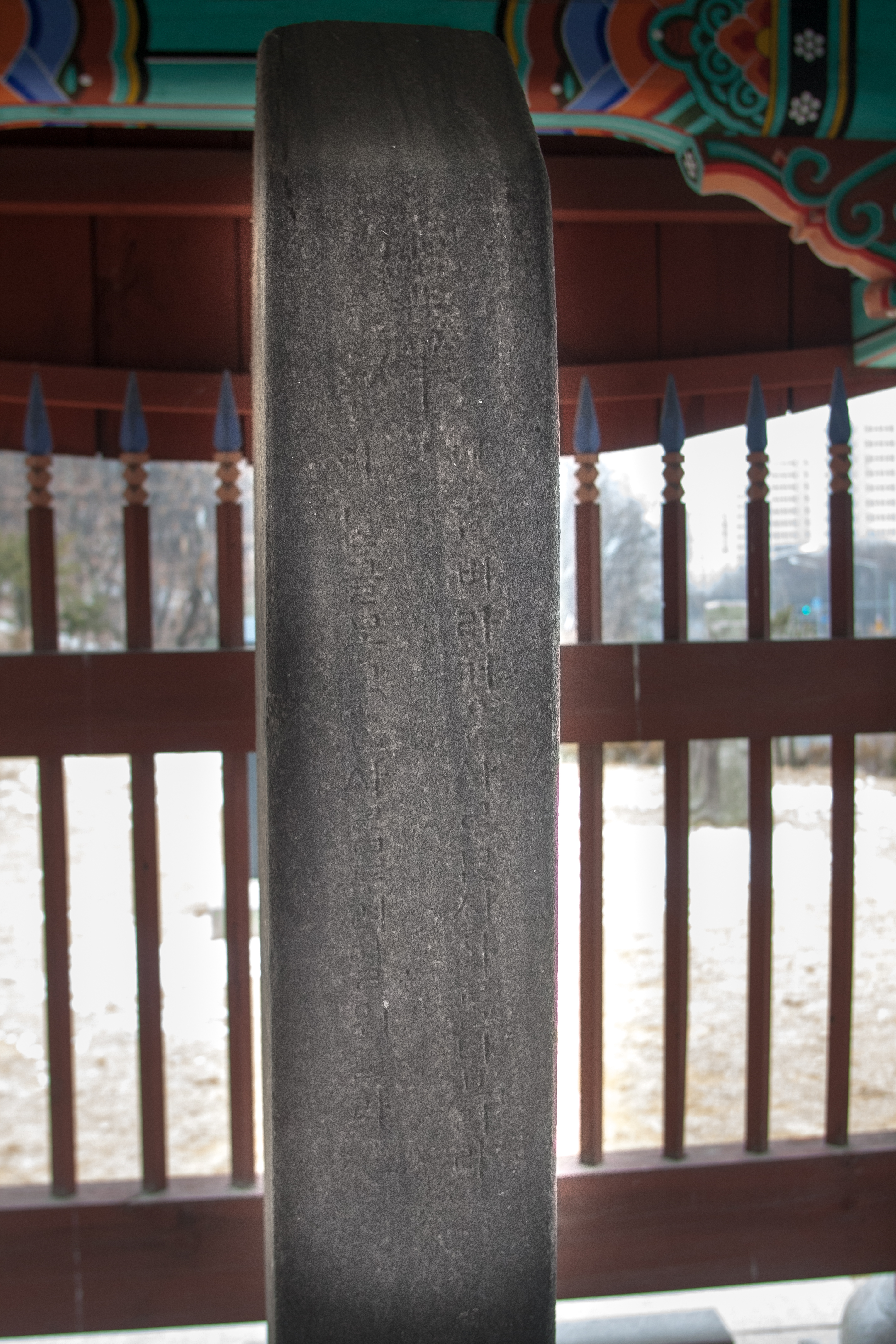 Stele of Yi Yuntak carved Hangul in Seoul, Korea